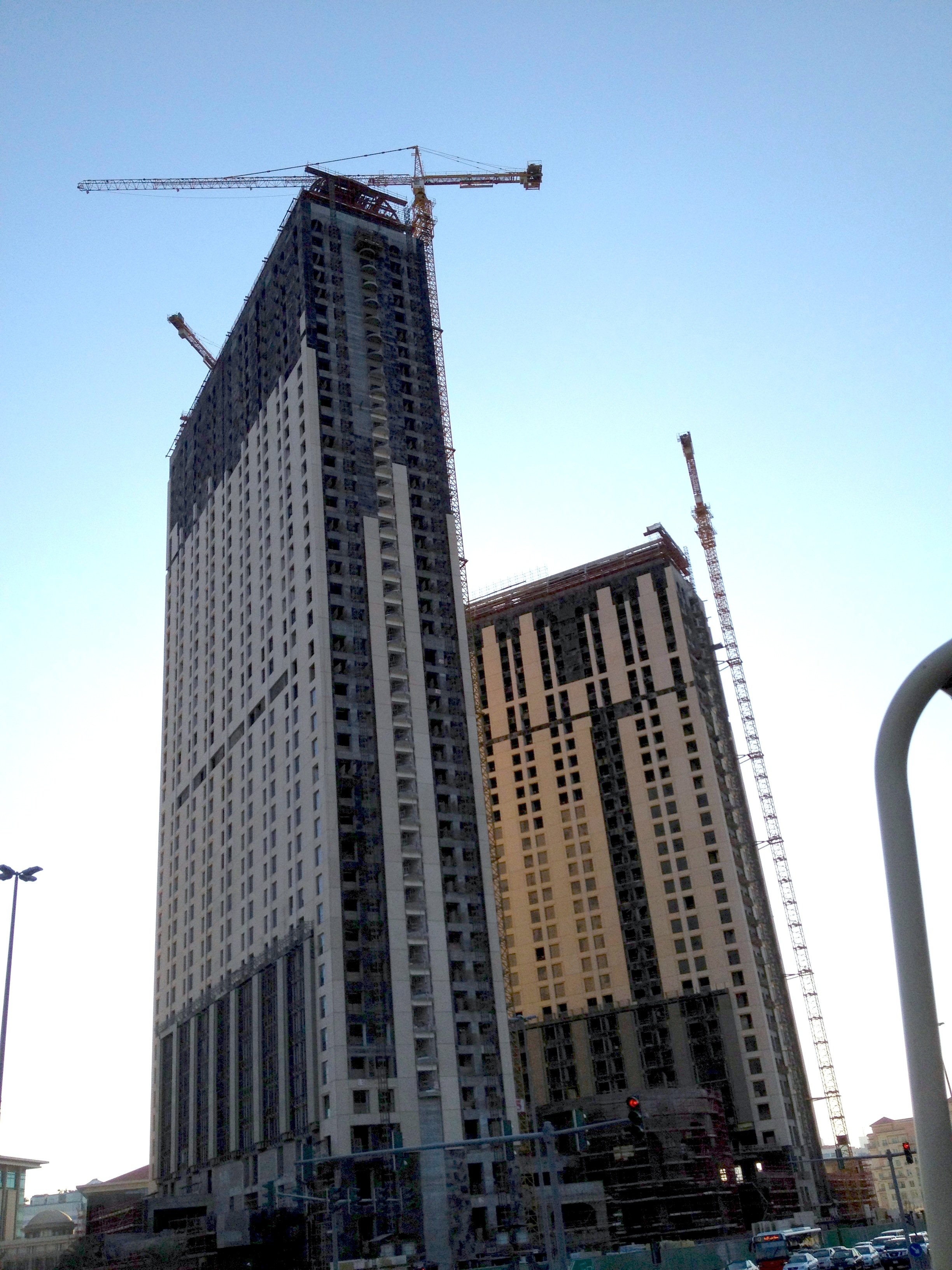 Immeubles en construction dans le Dubai Healthcare City (Buildings under construction in Dubai Healthcare City)